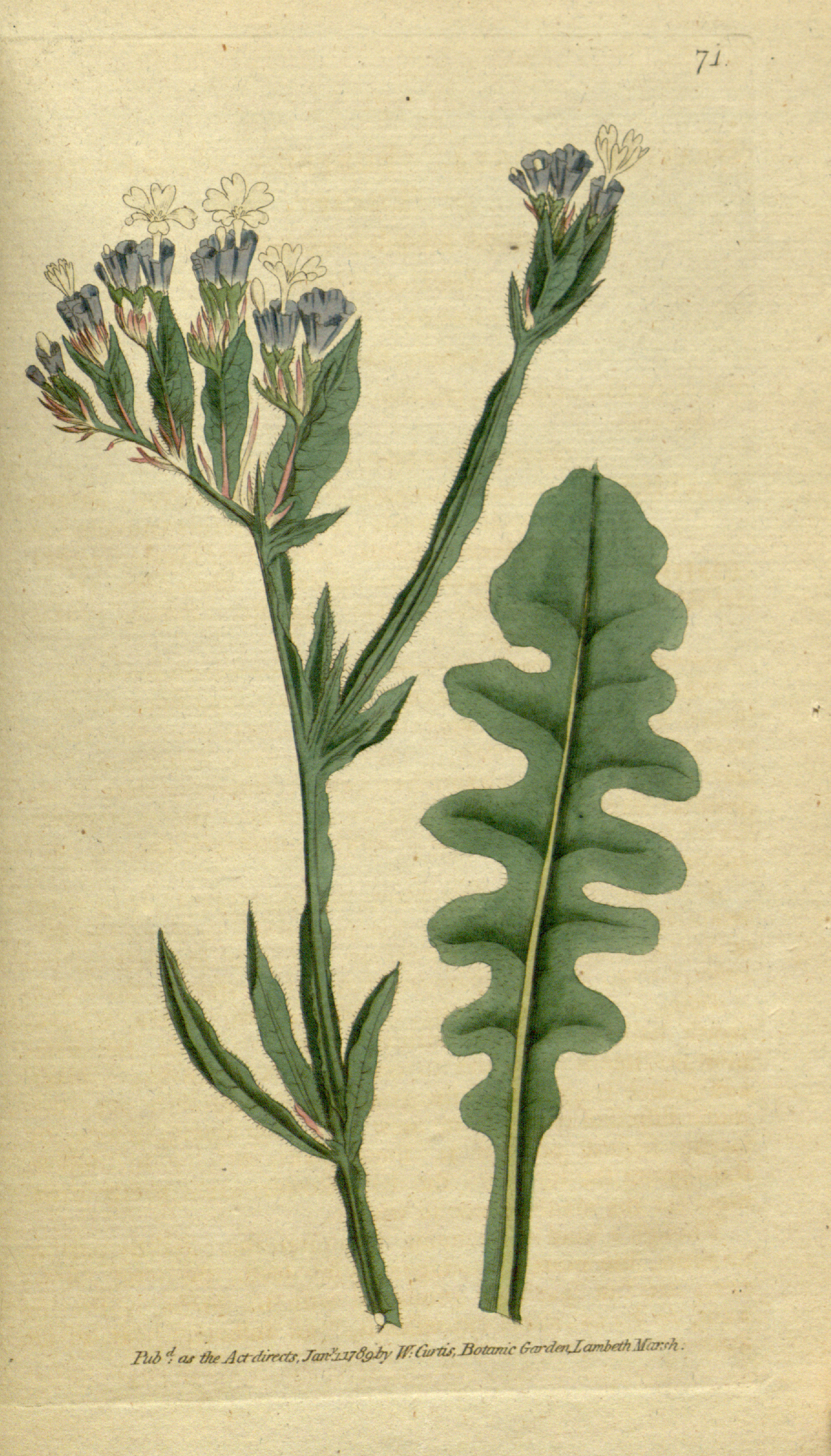 This is a plate from The Botanical Magazine, Volume 2.